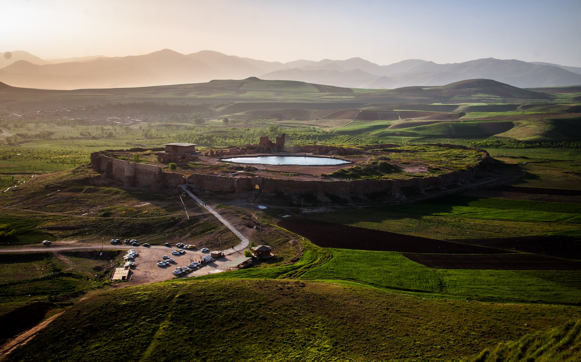 Takht-e Soleymān